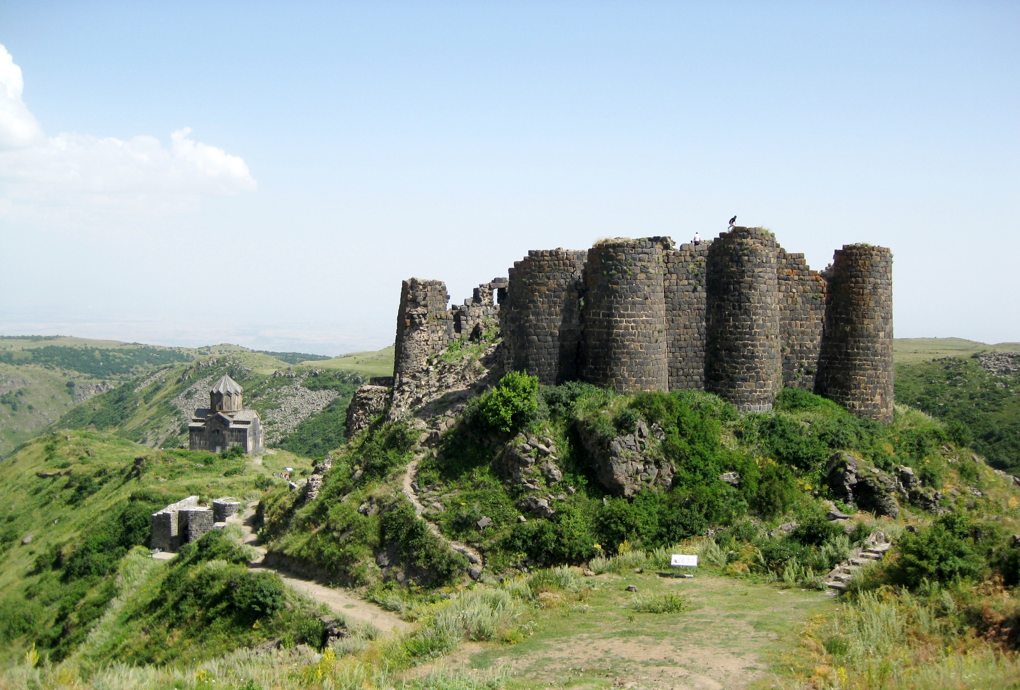 Medieval castle of Amberd and church near peak of Aragats